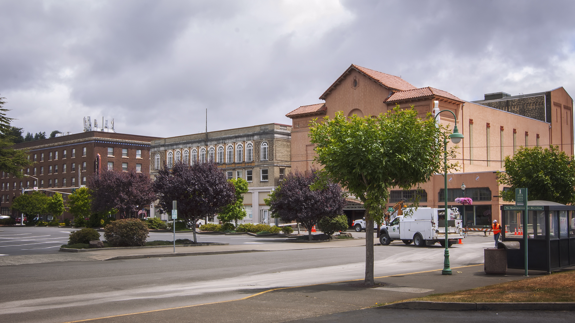 Hoquiam, WA